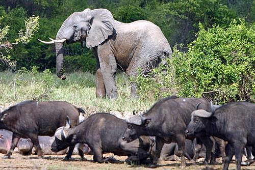 African Bush Elephant (Loxodonta africana) and African Buffaloes (Syncerus caffer) — at Virunga National Park, eastern Democratic Republic of the Congo.